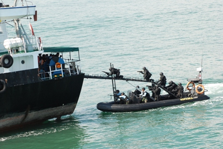 Indonesian's Kopaska Special Forces and Singapore's Special Operations Force during a joint-excercise